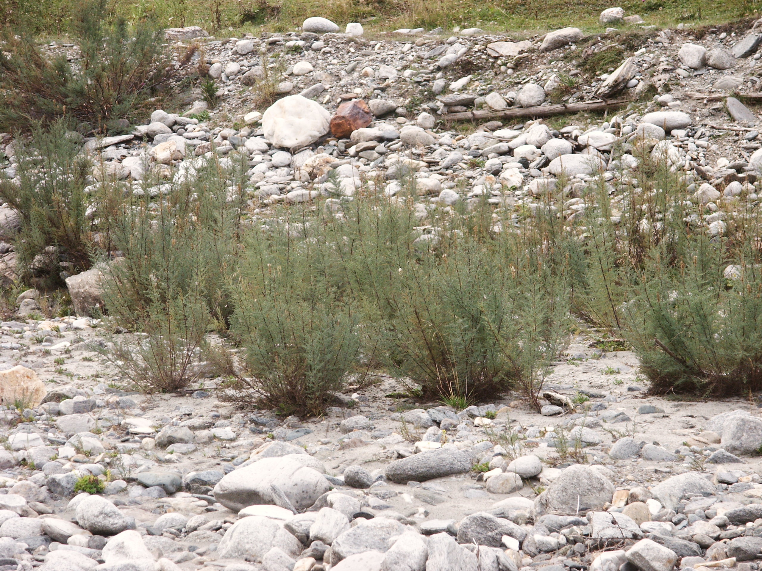 Myricaria germanica, South Tyrol, Italy